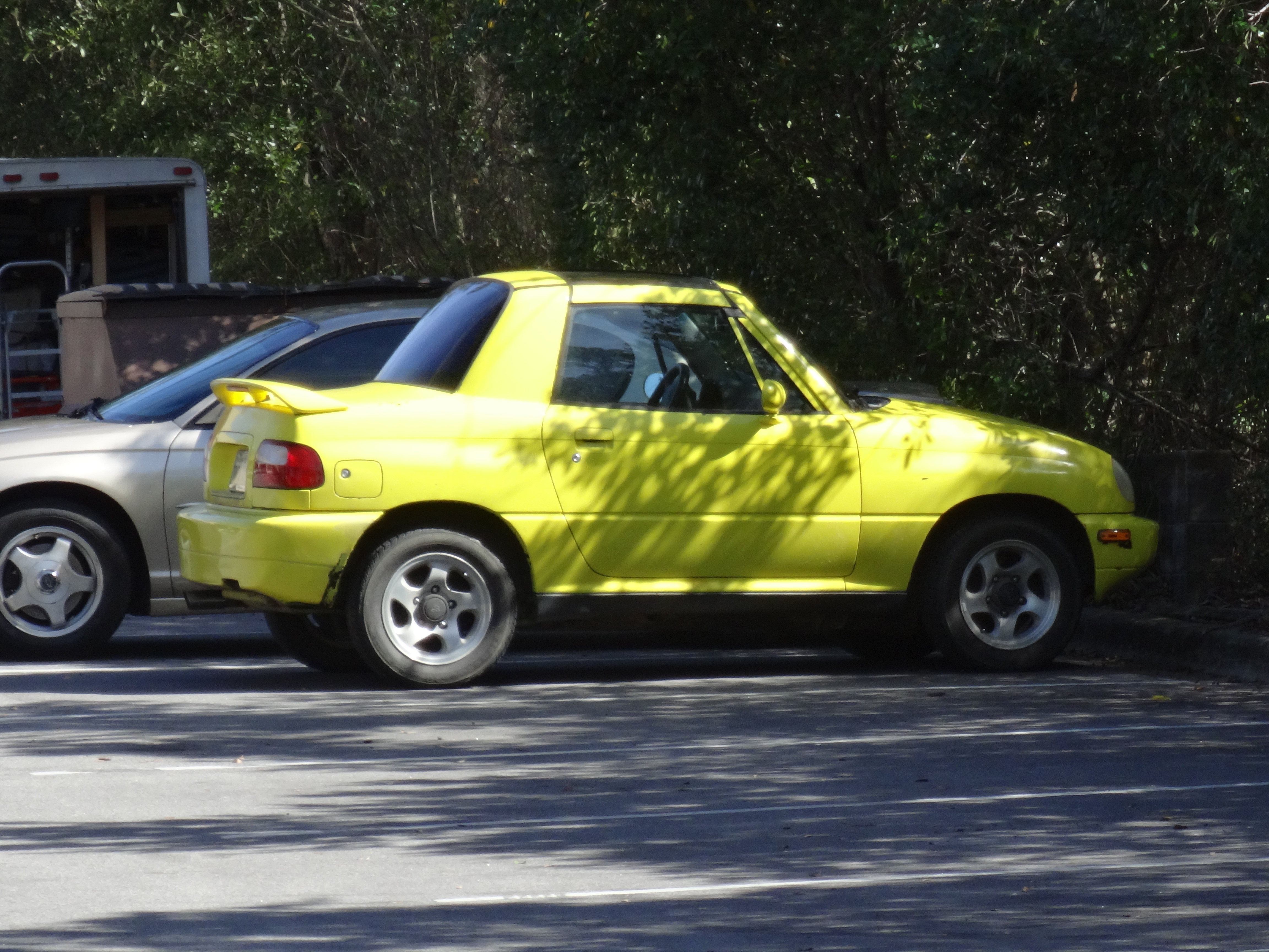 Suzuki X-90 parked in Tallahassee, Leon County, Florida